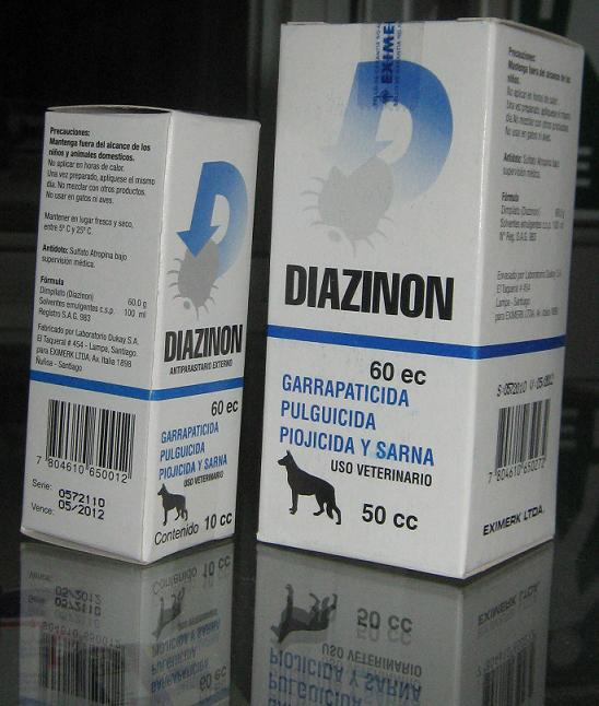 Diazinon trademark